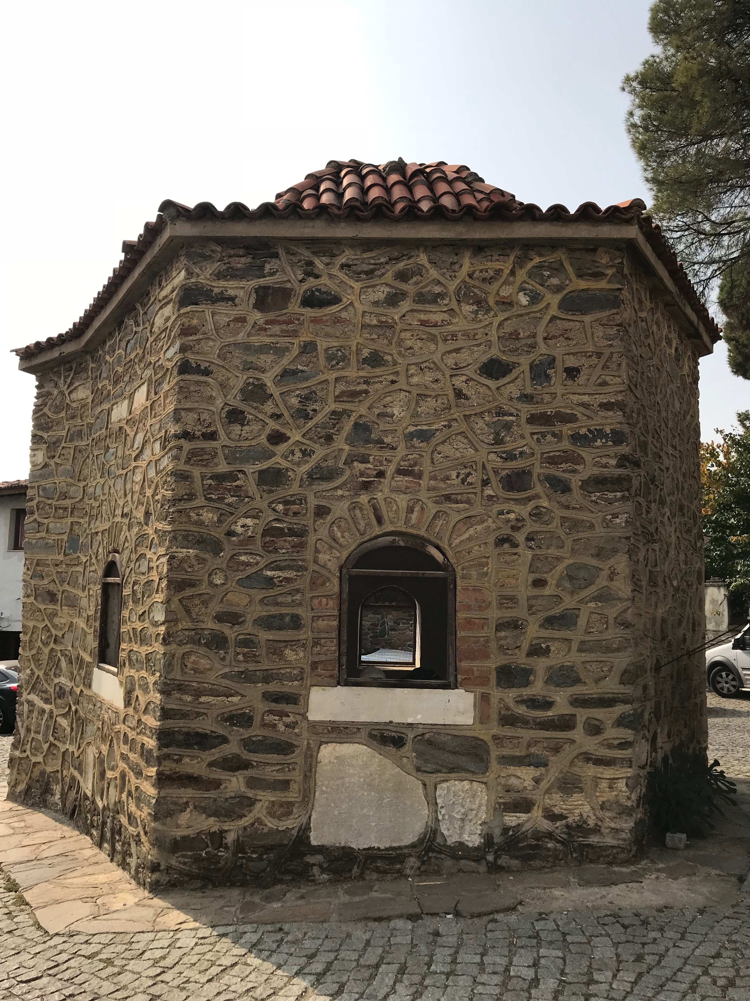 Tomb of Ümmü Sultan in Birgi, Ödemiş, Turkey.